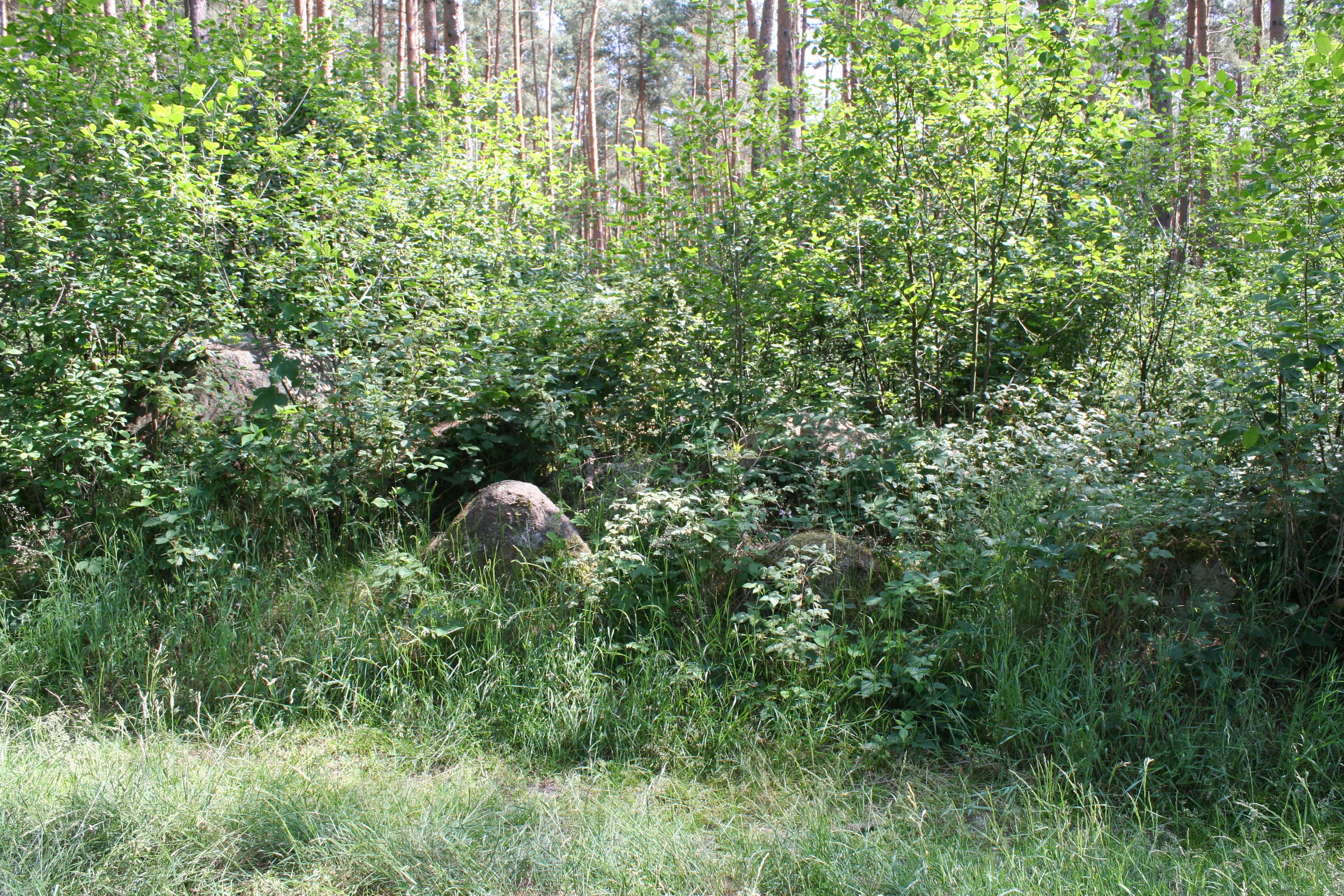 Megalithic tomb Bebertal I 3